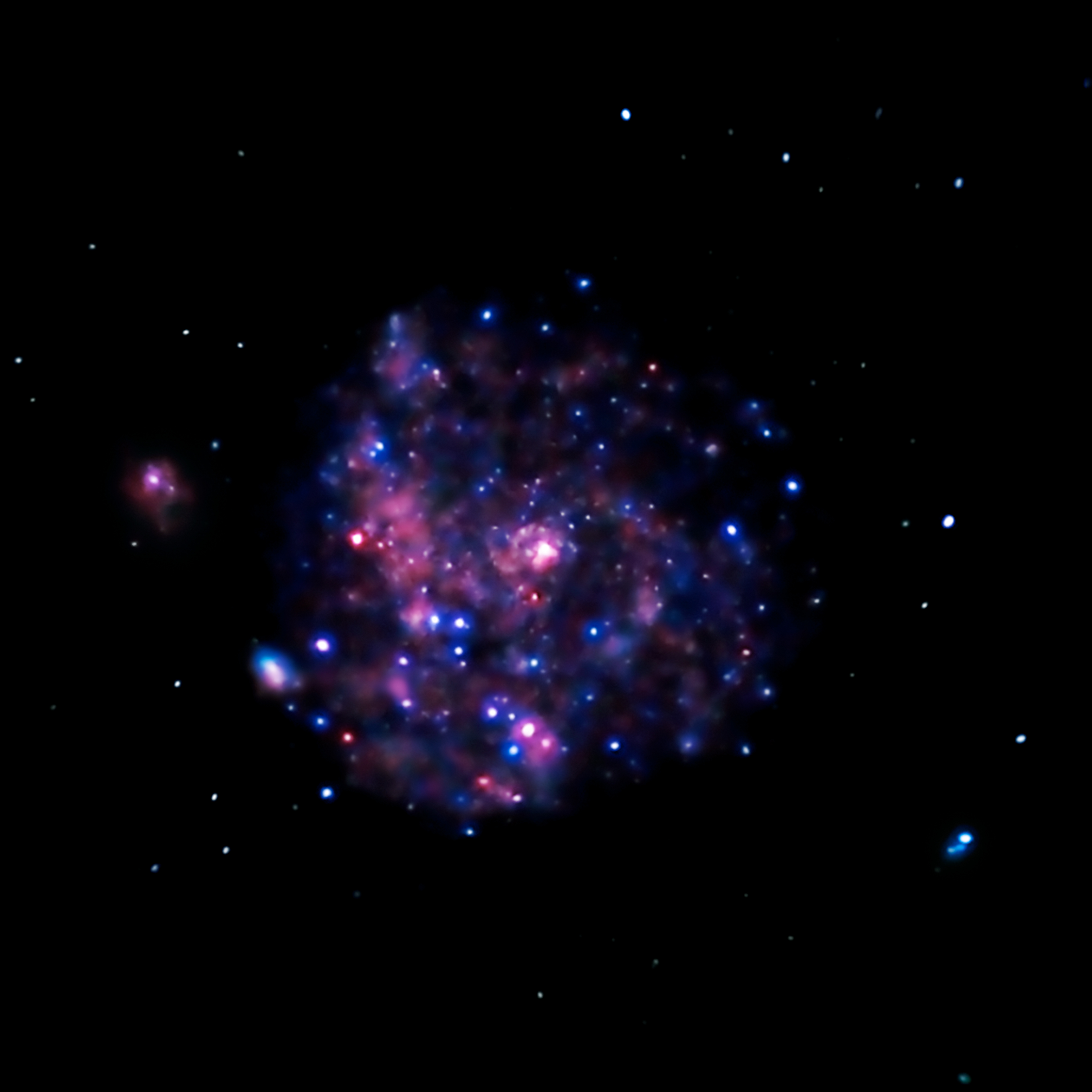 Description: This Chandra image of M101 is one of the longest exposures ever obtained of a spiral galaxy in X-rays. The point-like sources include binary star systems containing black holes and neutron stars, and the remains of supernova explosions. Other sources of X-rays include hot gas in the arms of the galaxy and clusters of massive stars. These X-ray observations of M101 will be used to establish a valuable X-ray profile of a galaxy similar to the Milky Way. This will help astronomers better understand the evolutionary paths that produce black holes, and provide a baseline for interpreting the observations of distant galaxies. Creator/Photographer: Chandra X-ray Observatory The Chandra X-ray Observatory, which was launched and deployed by Space Shuttle Columbia on July 23, 1999, is the most sophisticated X-ray observatory built to date. The mirrors on Chandra are the largest, most precisely shaped and aligned, and smoothest mirrors ever constructed. Chandra is helping scientists better understand the hot, turbulent regions of space and answer fundamental questions about origin, evolution, and destiny of the Universe. The images Chandra makes are twenty-five times sharper than the best previous X-ray telescope. The Smithsonian Astrophysical Observatory controls Chandra science and flight operations from the Chandra X-ray Center in Cambridge, Massachusetts. Medium: Chandra telescope x-ray Date: 2008 Persistent URL: [1] Repository: Smithsonian Astrophysical Observatory Gift line: NASA/CXC/JHU/K.Kuntz et al. Accession number: m101